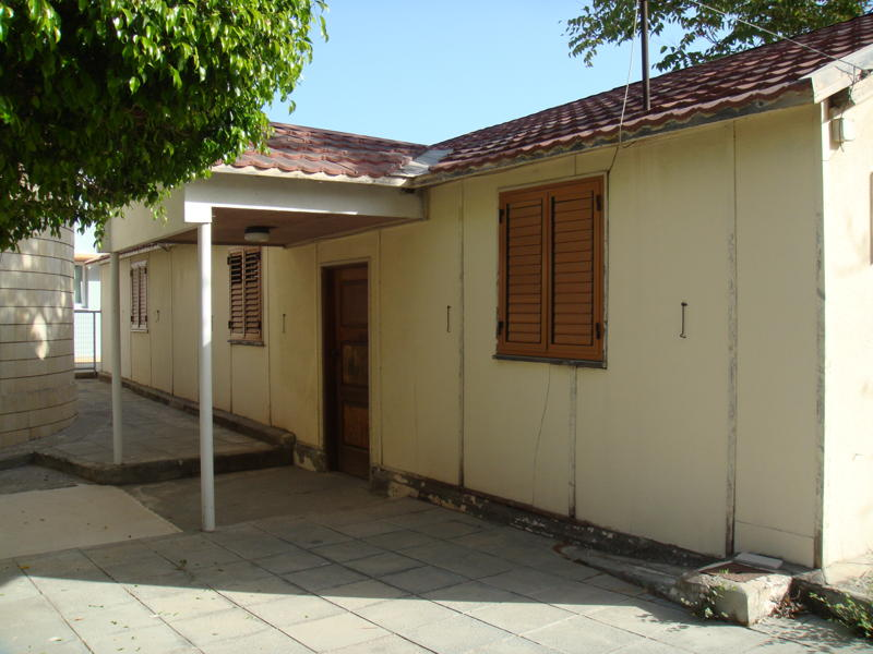 Limassol's Armenian church Hall